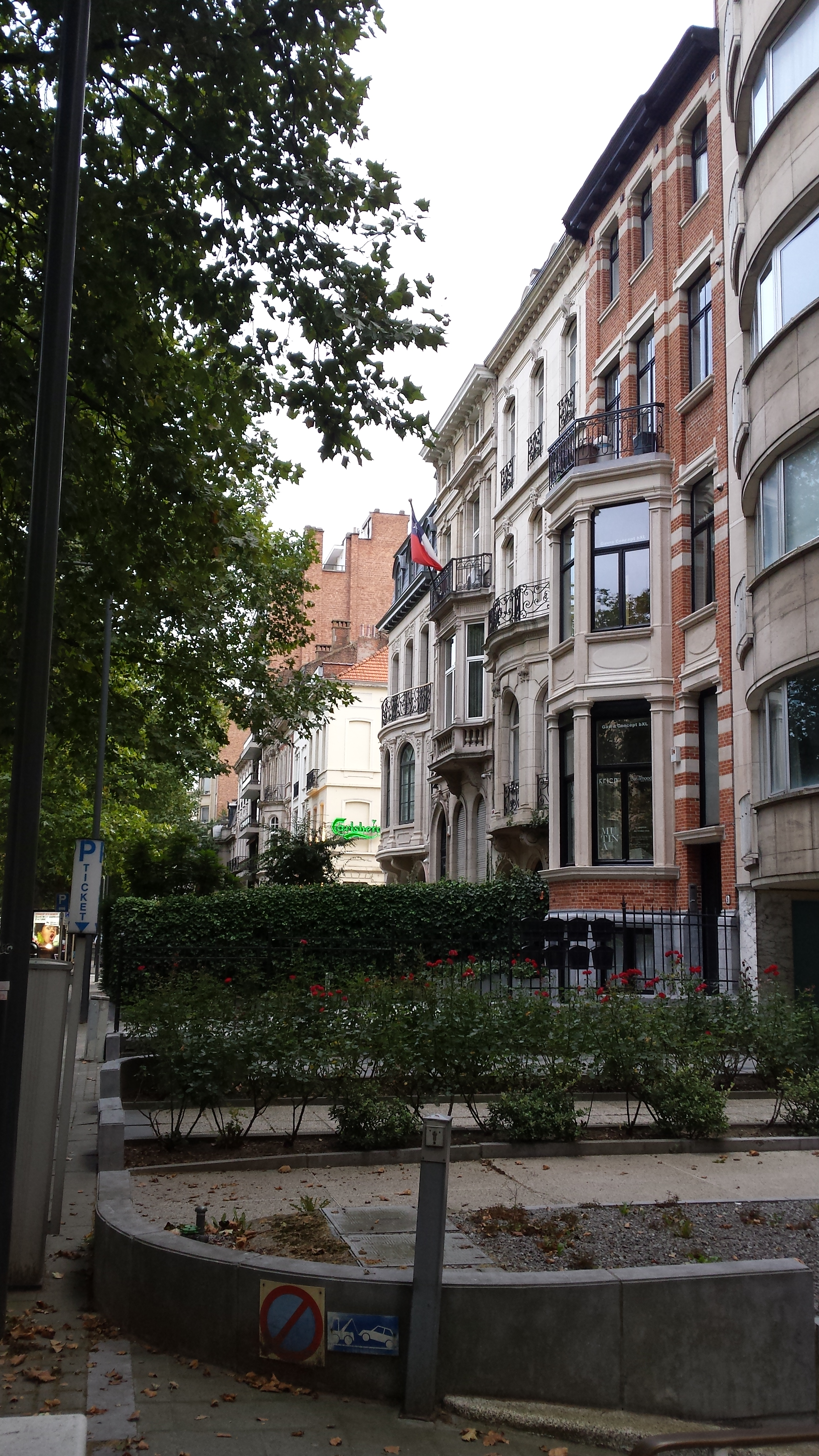 Embassy of Chile in Brussels